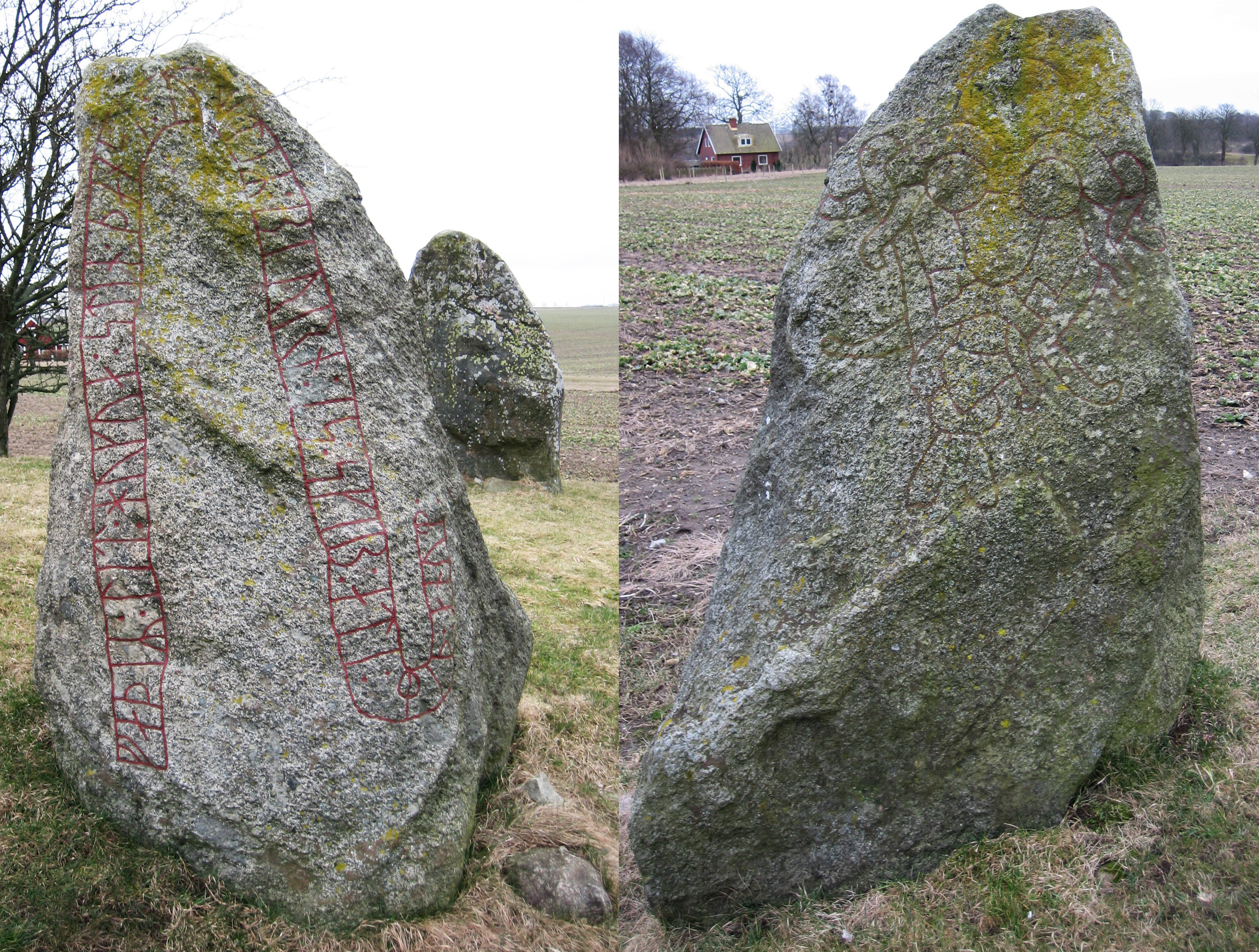 DR 335 - Västra Ströstenen 2. The DR 335 runestone at the Västra Strö viking age monument. Photos and merge by the uploader 2009-03-14.